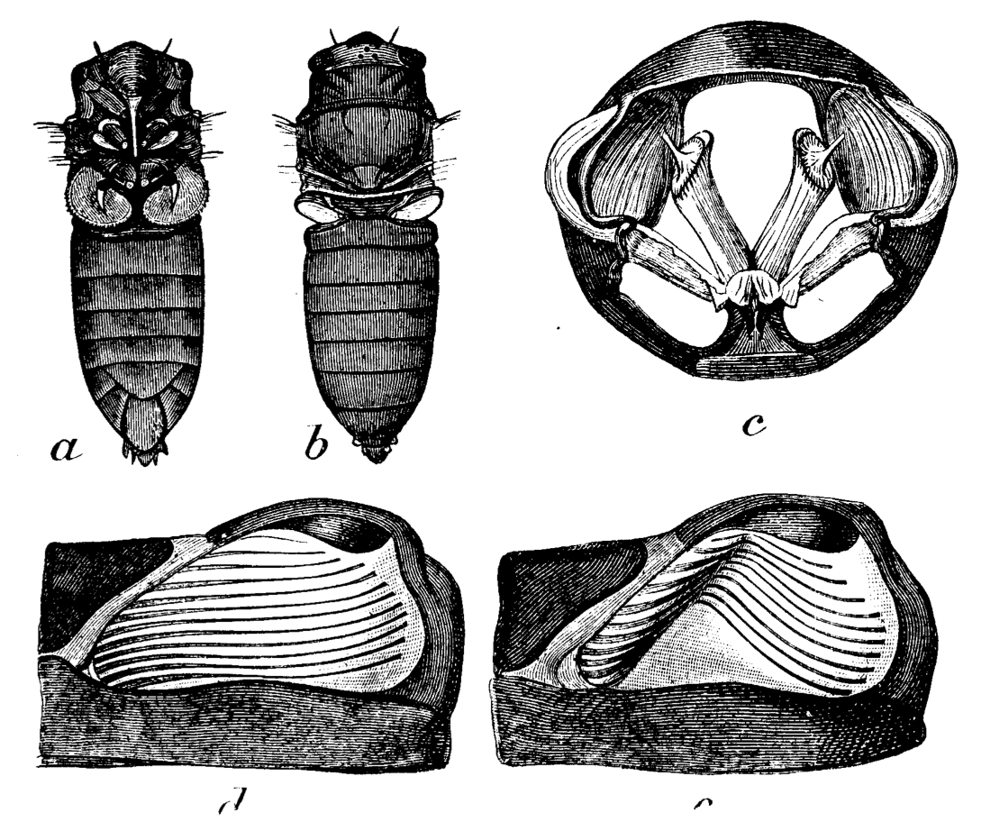 Cicada tymbals: sound-producing organs and musculature. a, Body of male Cicada from below, showing cover-plates of musical organs; b, From above showing tymbals (drums), natural size; c, Section showing muscles which vibrate tymbals (magnified); d, A tymbal at rest; e, Thrown into vibration (as when cicada is singing), more highly magnified.